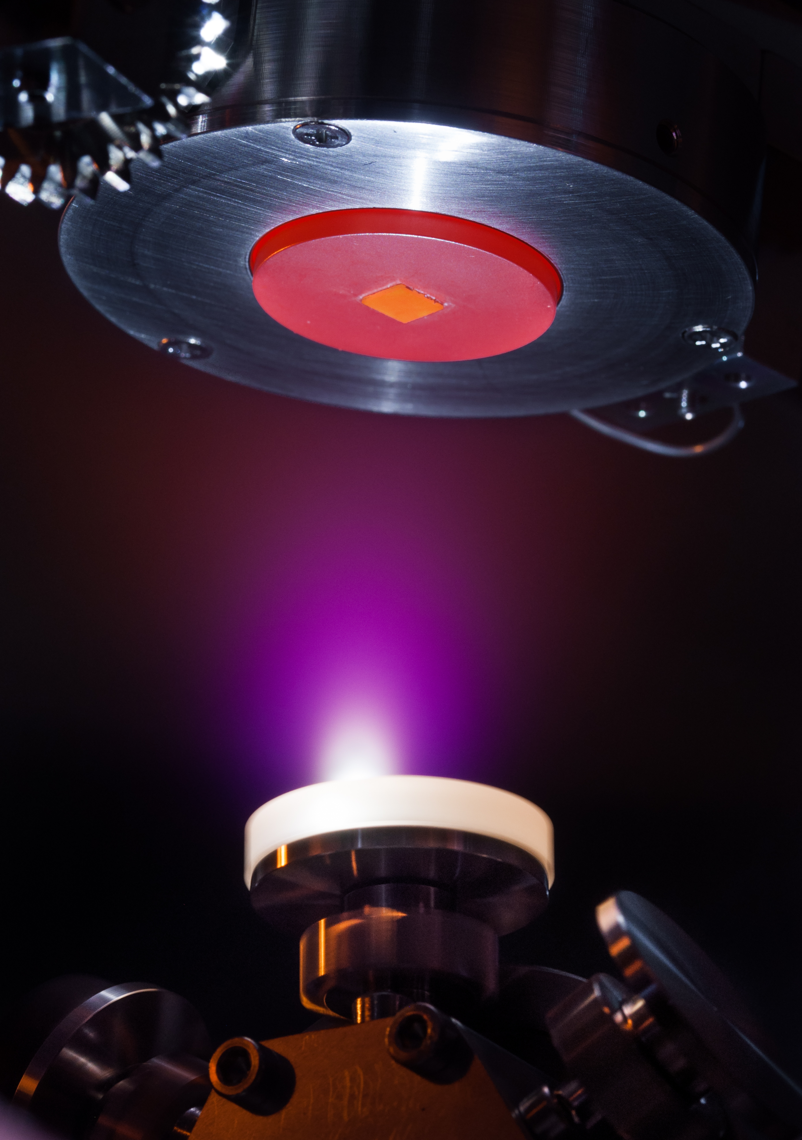 Thin films of oxides are deposited with atomic layer precision using pulsed laser deposition. A high-intensity pulsed laser is shooting onto the rotating white target consisting of Al2O3 (alumina). The laser pulse creates a plasma explosion visible as the purple cloud. The plasma cloud expands towards the square substrate, consisting of SrTiO3 (strontium titanate), where it deposits thin layers of alumina, one atomic layer at a time. This results in a conducting interface between the two materials which are otherwise insulating. The substrate is mounted on a heating plate, glowing red from a temperature of 650 ºC, to improve the crystallinity of the alumina thin film.